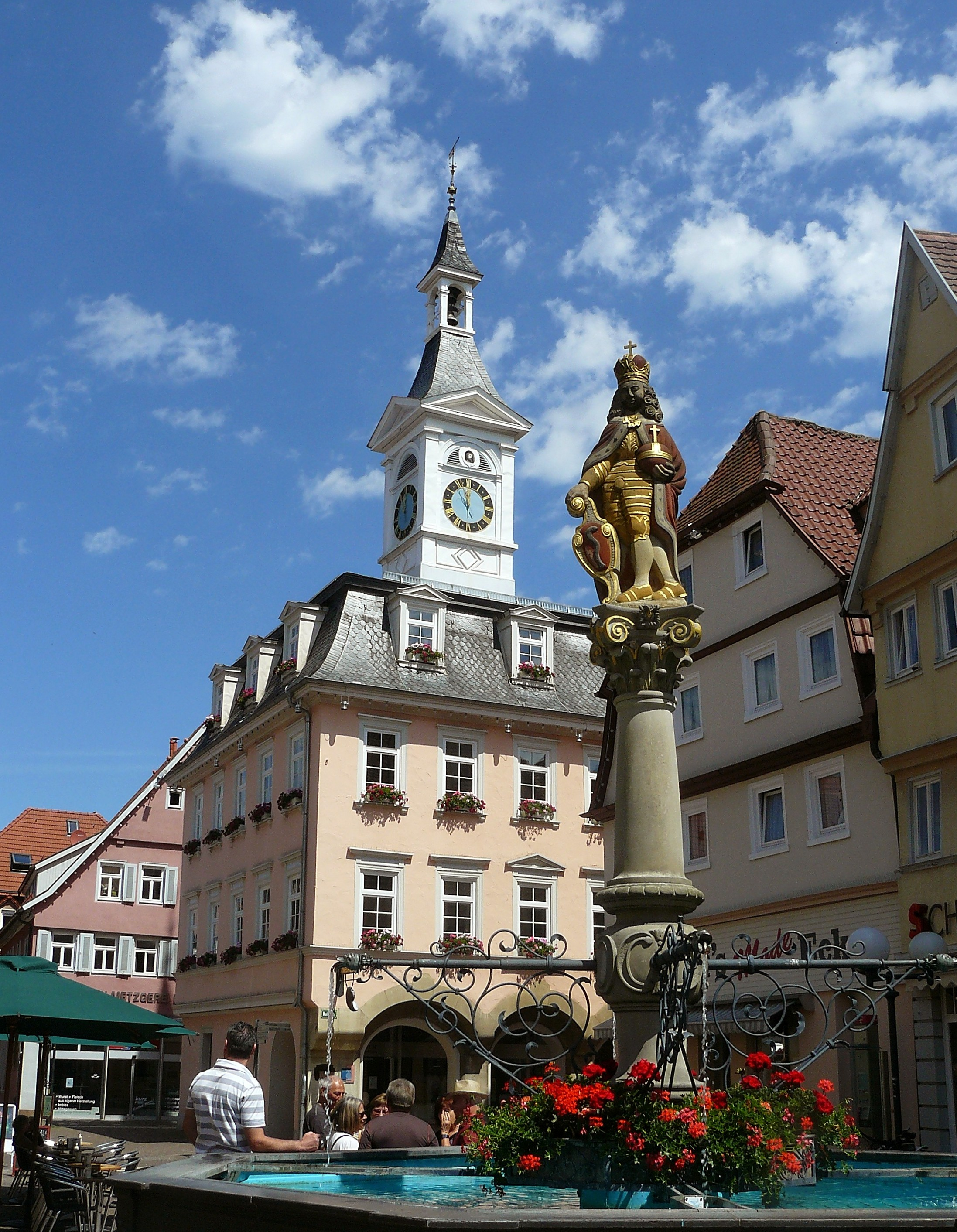 The old town hall in Aalen, Baden-Württemberg, behind a statue of the emperor Joseph I. (which is on top of the marketplace fountain).